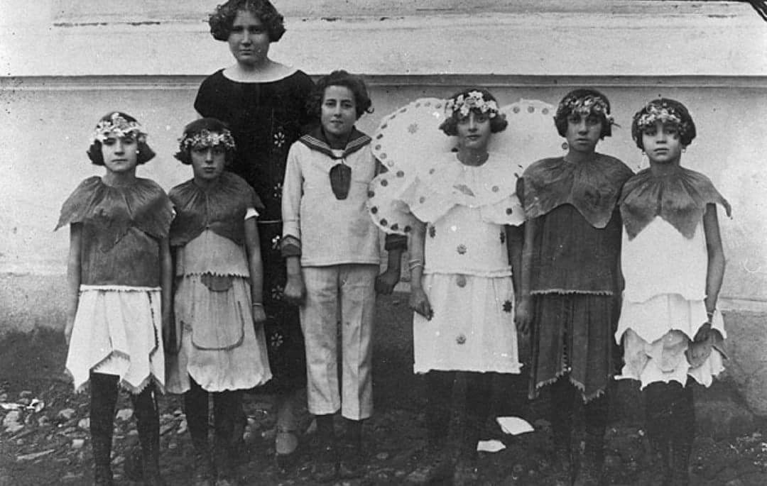 Hebrew teacher, Leah ben david nicknamed "La Geveret" with her pupiles in Bitola circa 1925